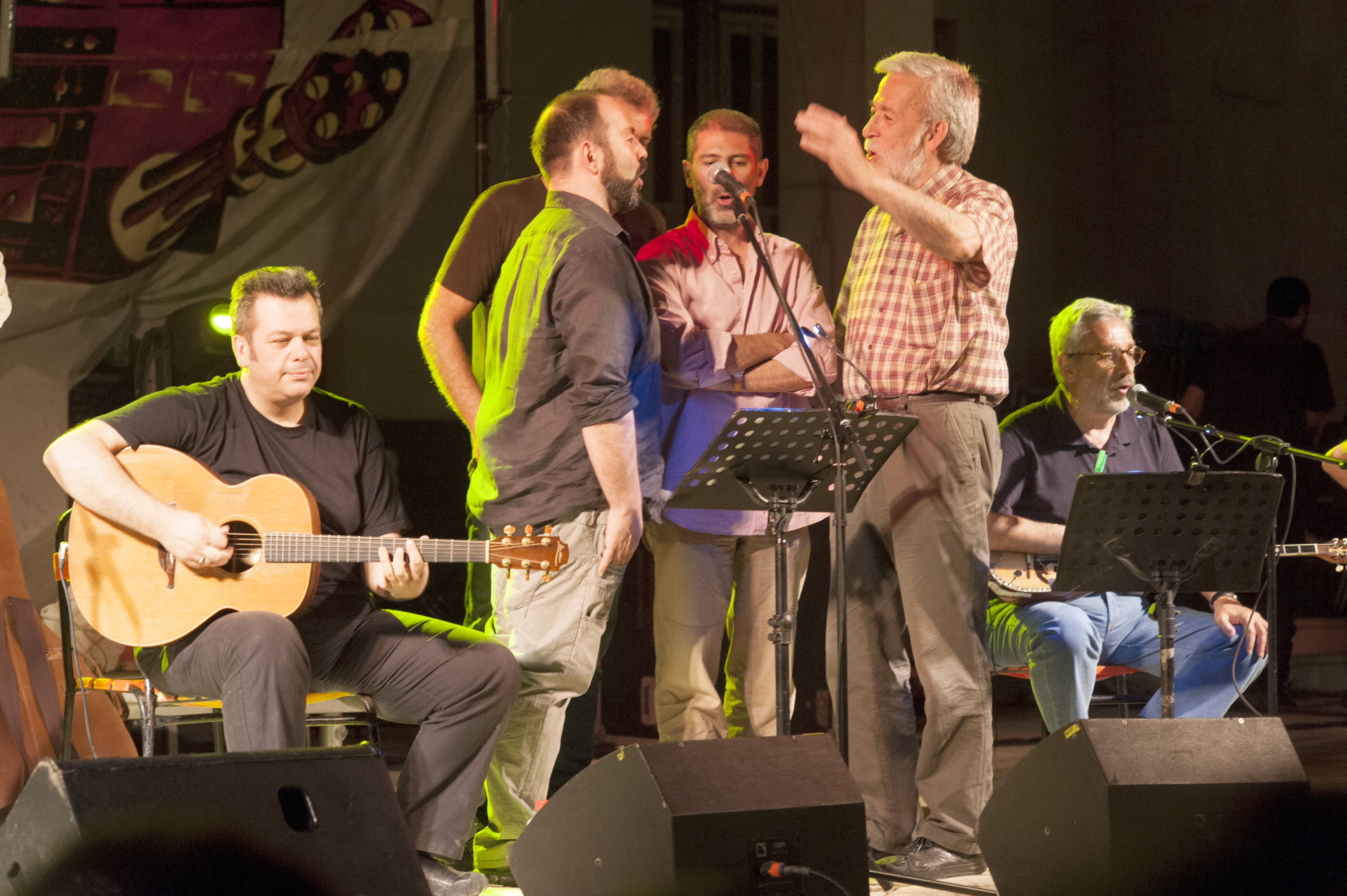 The Greek music group "Chimerini Kolimbites".